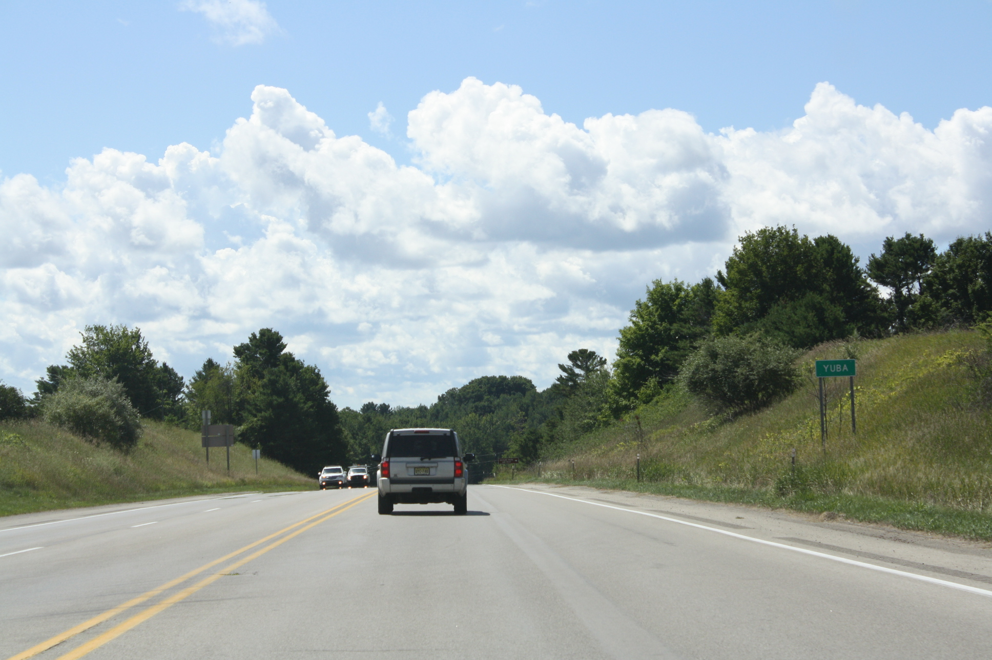 The city sign for Yuba, Michigan on U.S. Route 31.